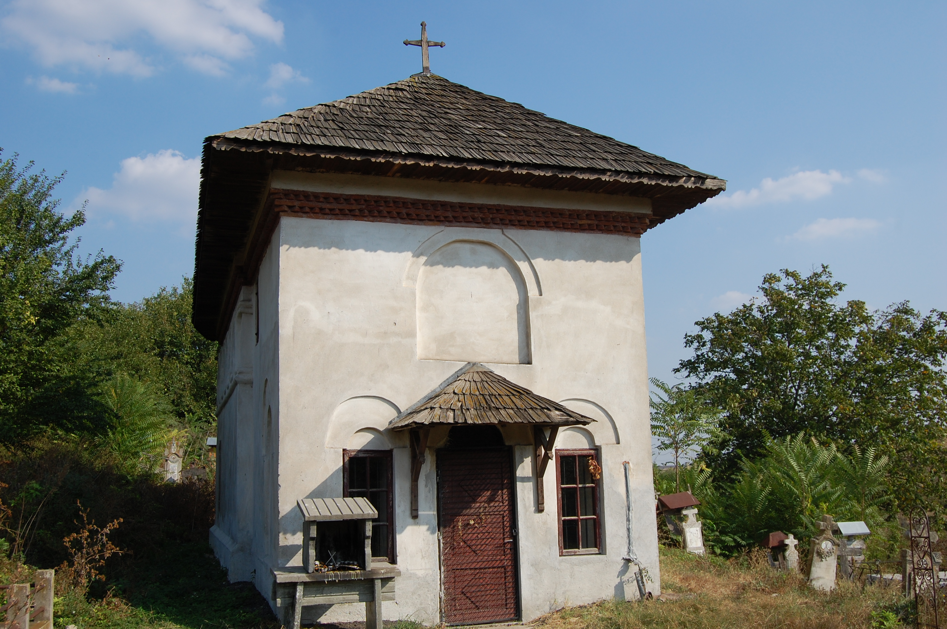 old church in Tanrava village